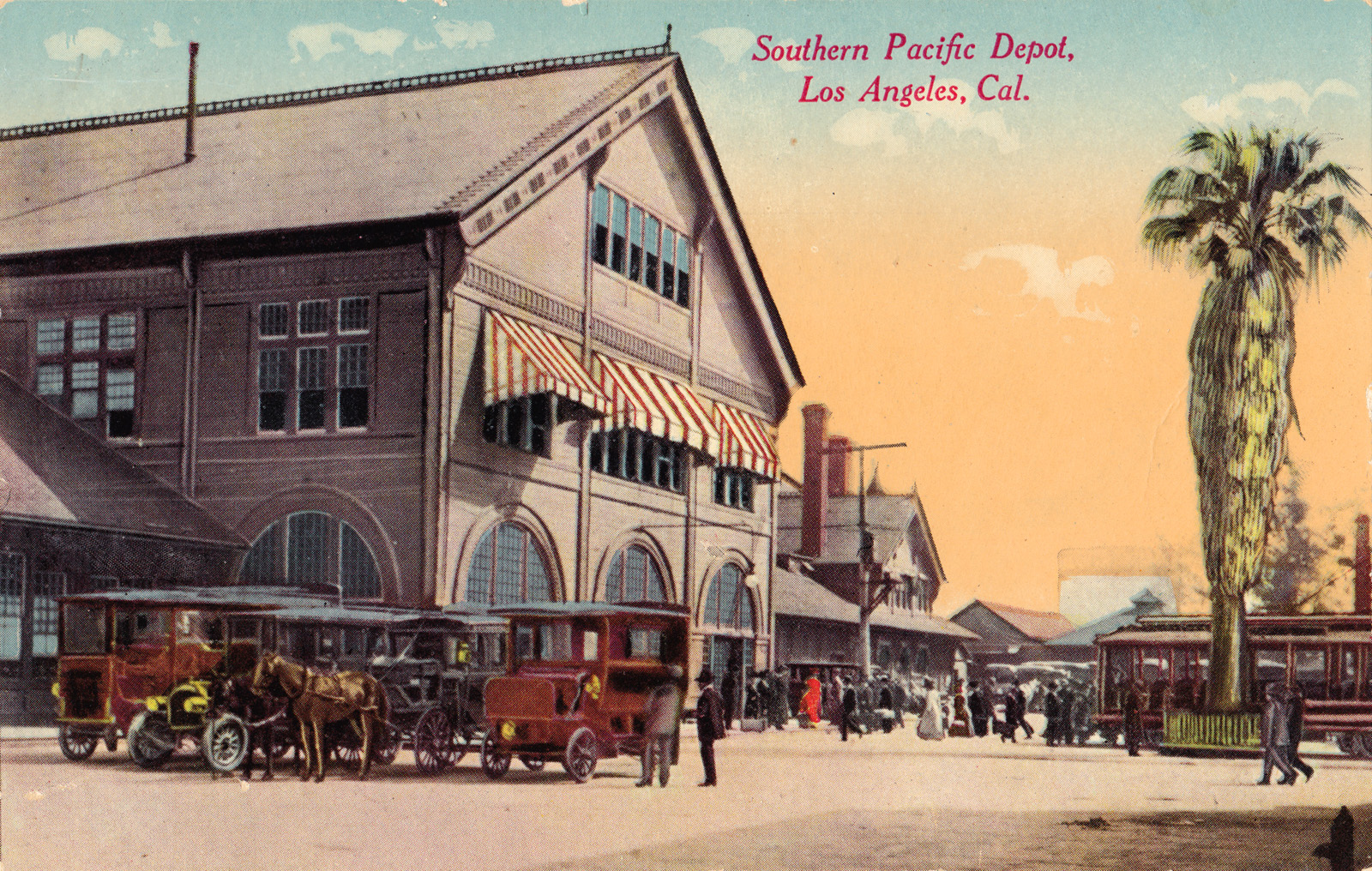 Southern Pacific Depot, Los Angeles, Cal. postcard.